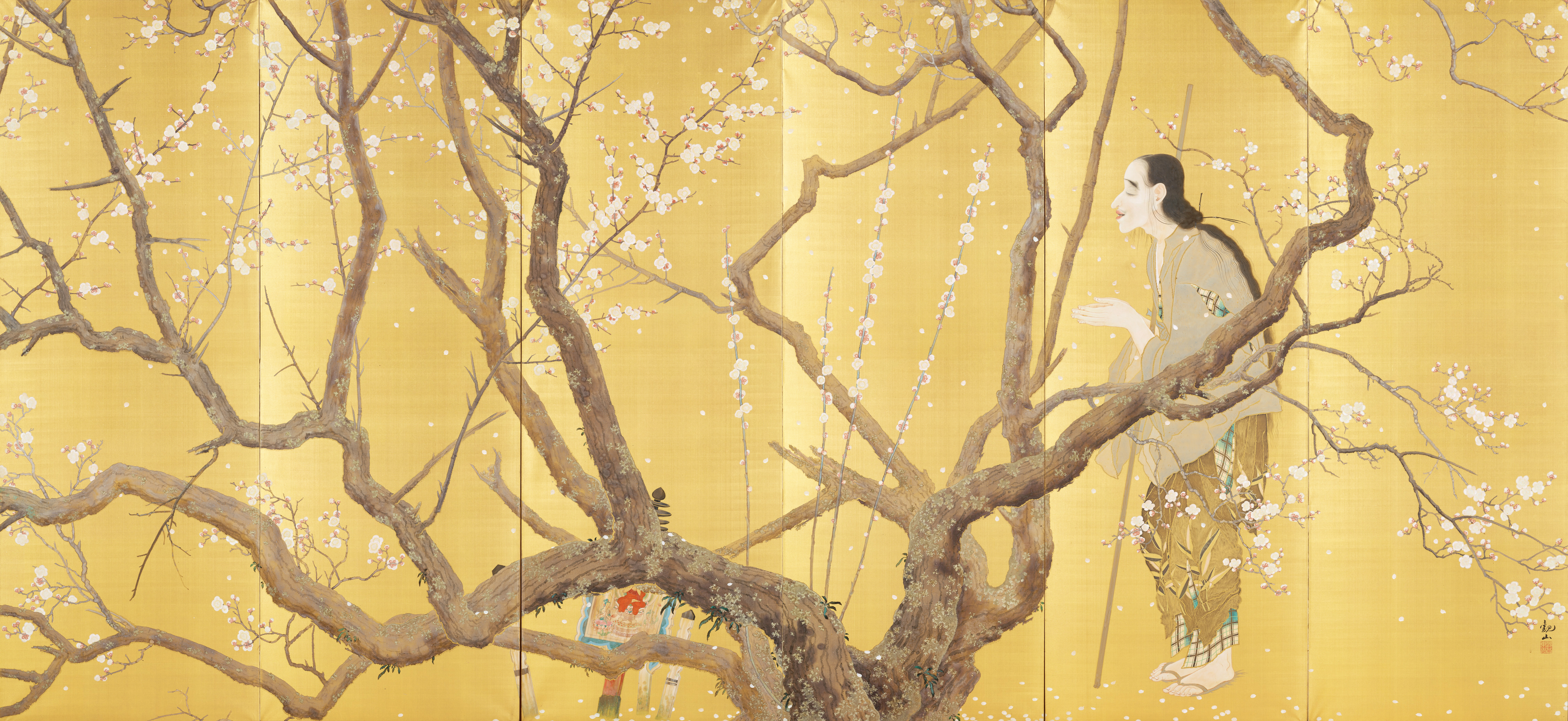 Yoroboshi, by Shimomura Kanzan, Tokyo National Museum, Japan